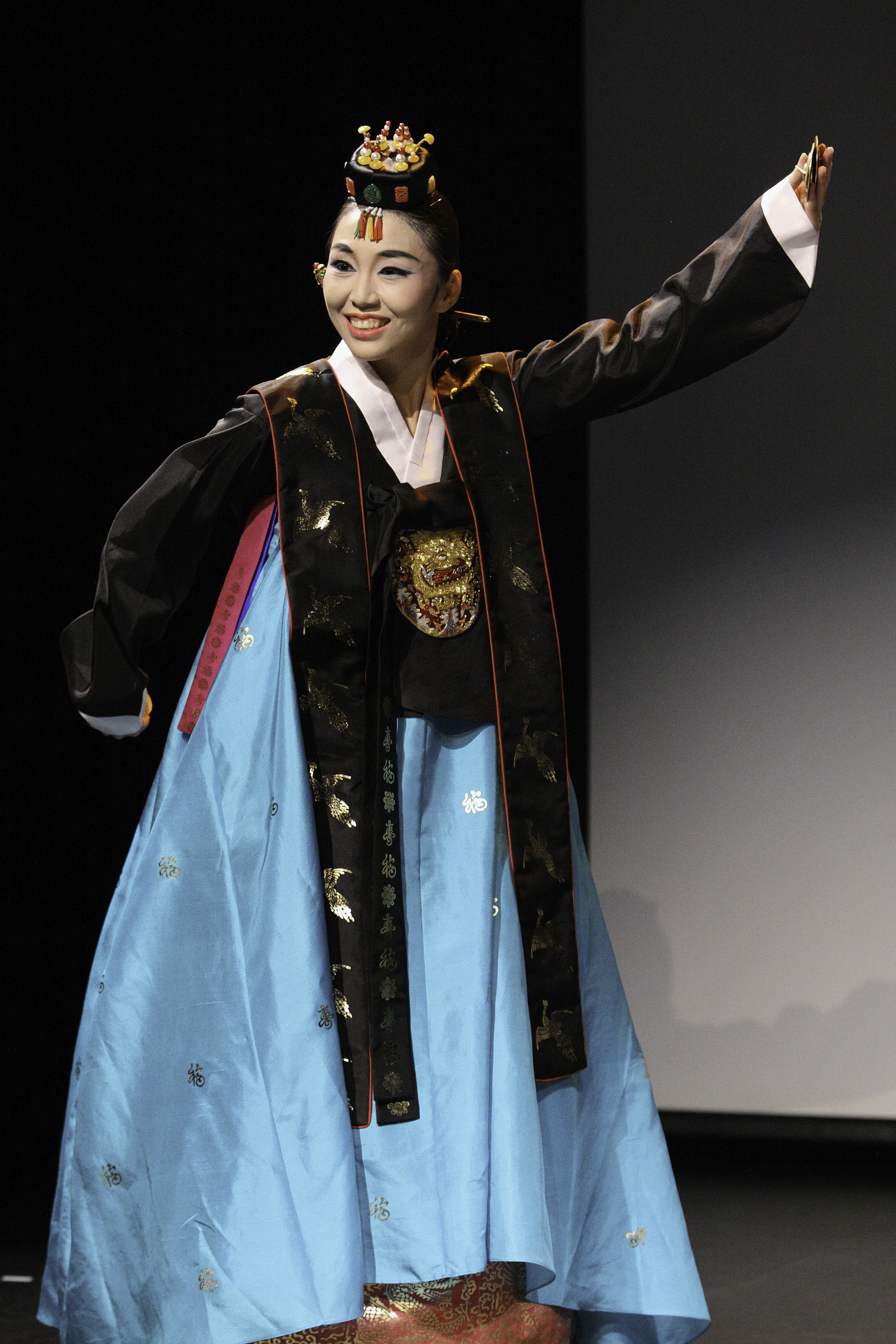 Traditional Korean dance by a performance group, Nanuri